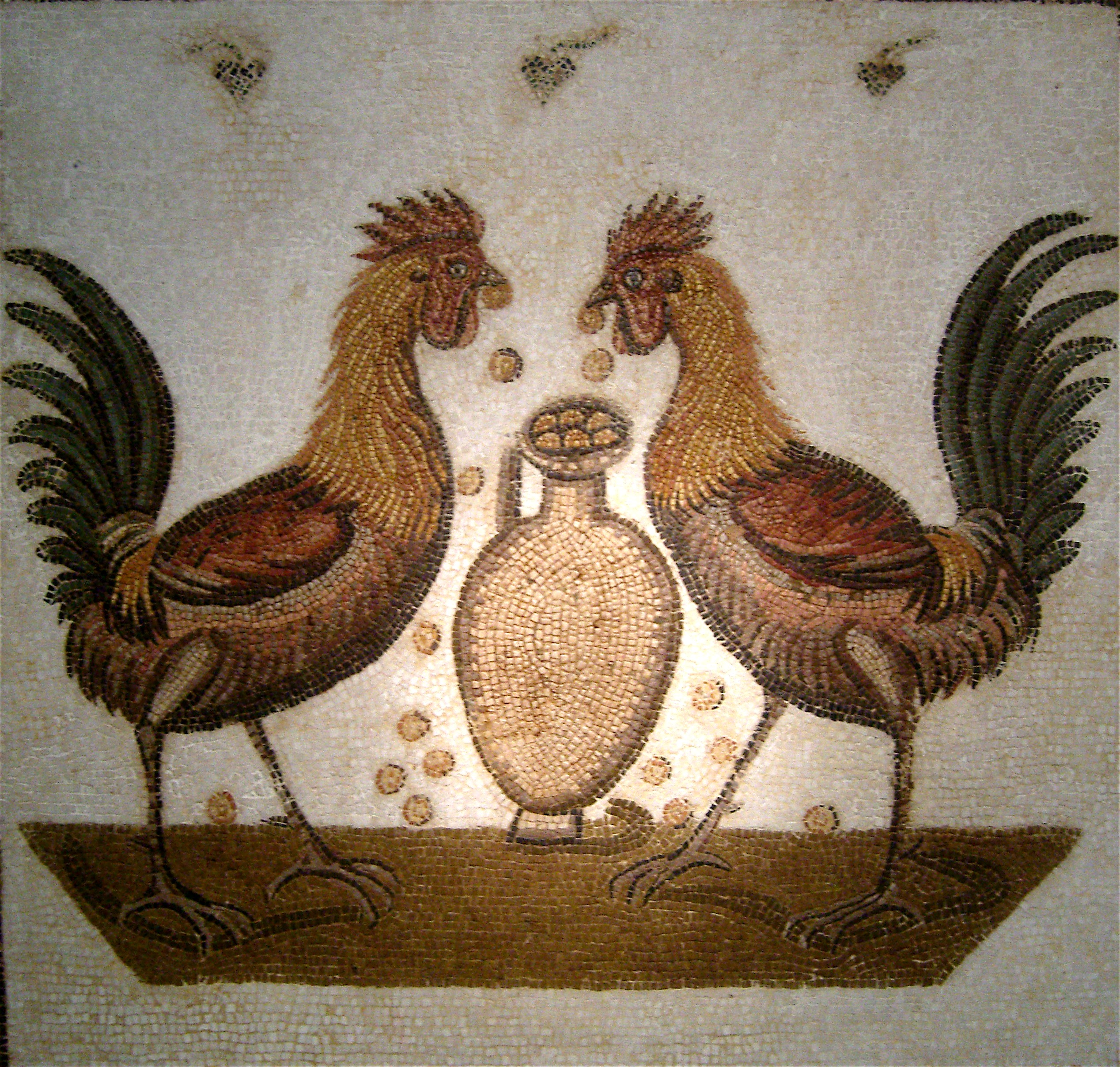 Two coks face each other on either side of a jar with a cone-shaped base filled with gold coins.